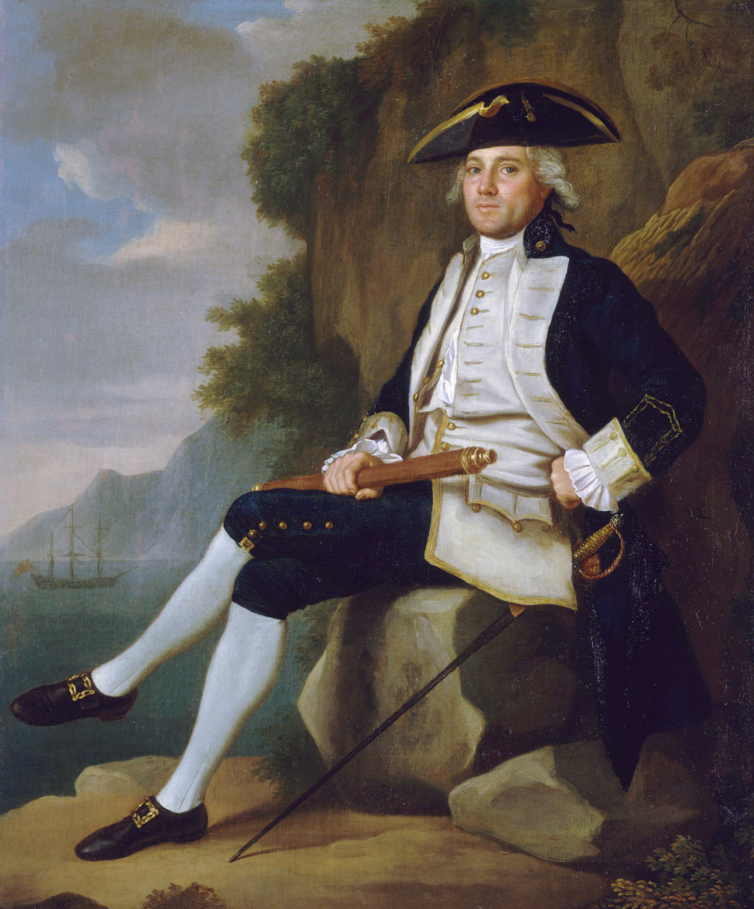 Captain Edward Vernon (1723-1794) oil on canvas 76.2 x 63.5 cm mid-18th century